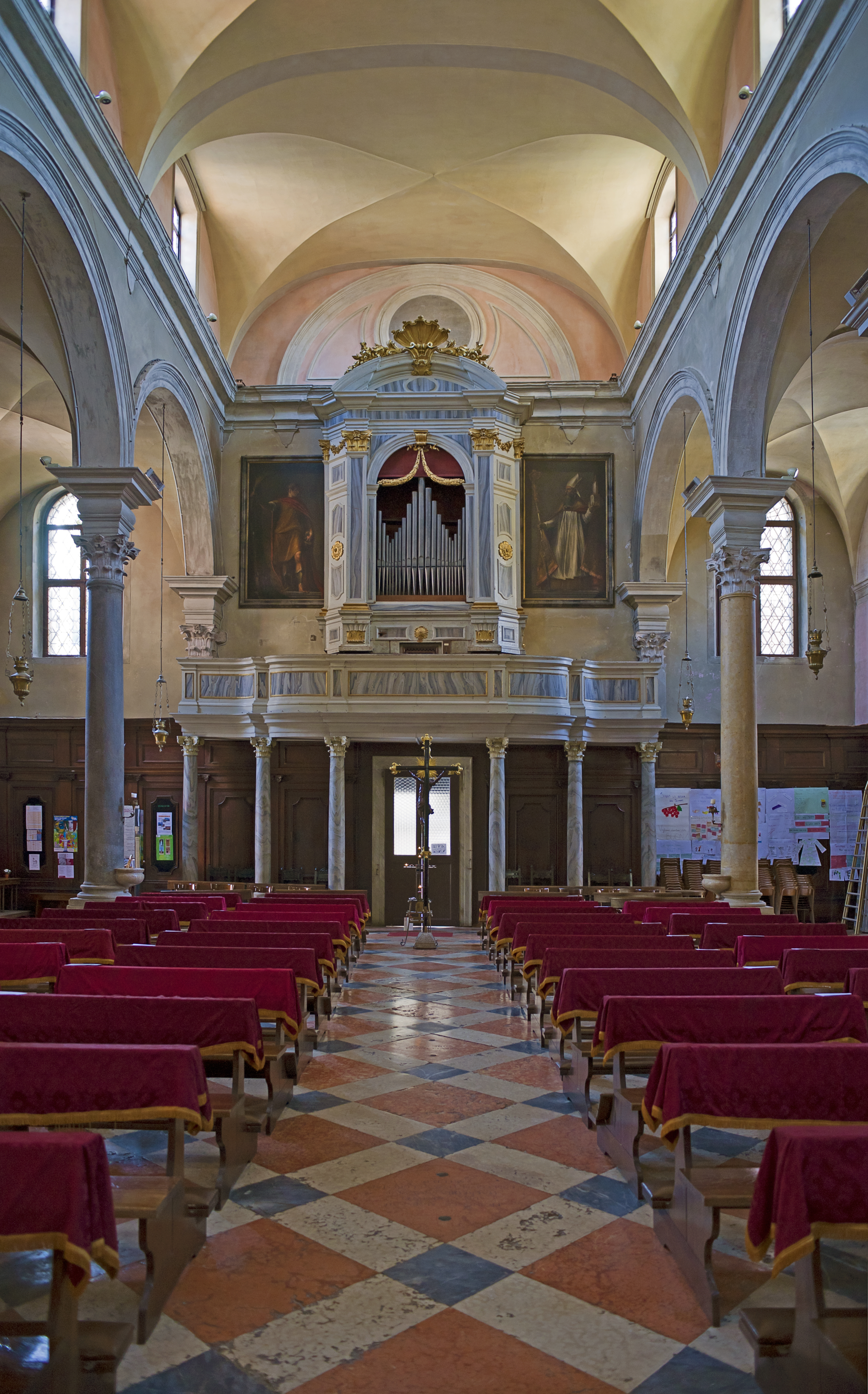 Church of San Canciano Venice. Organ